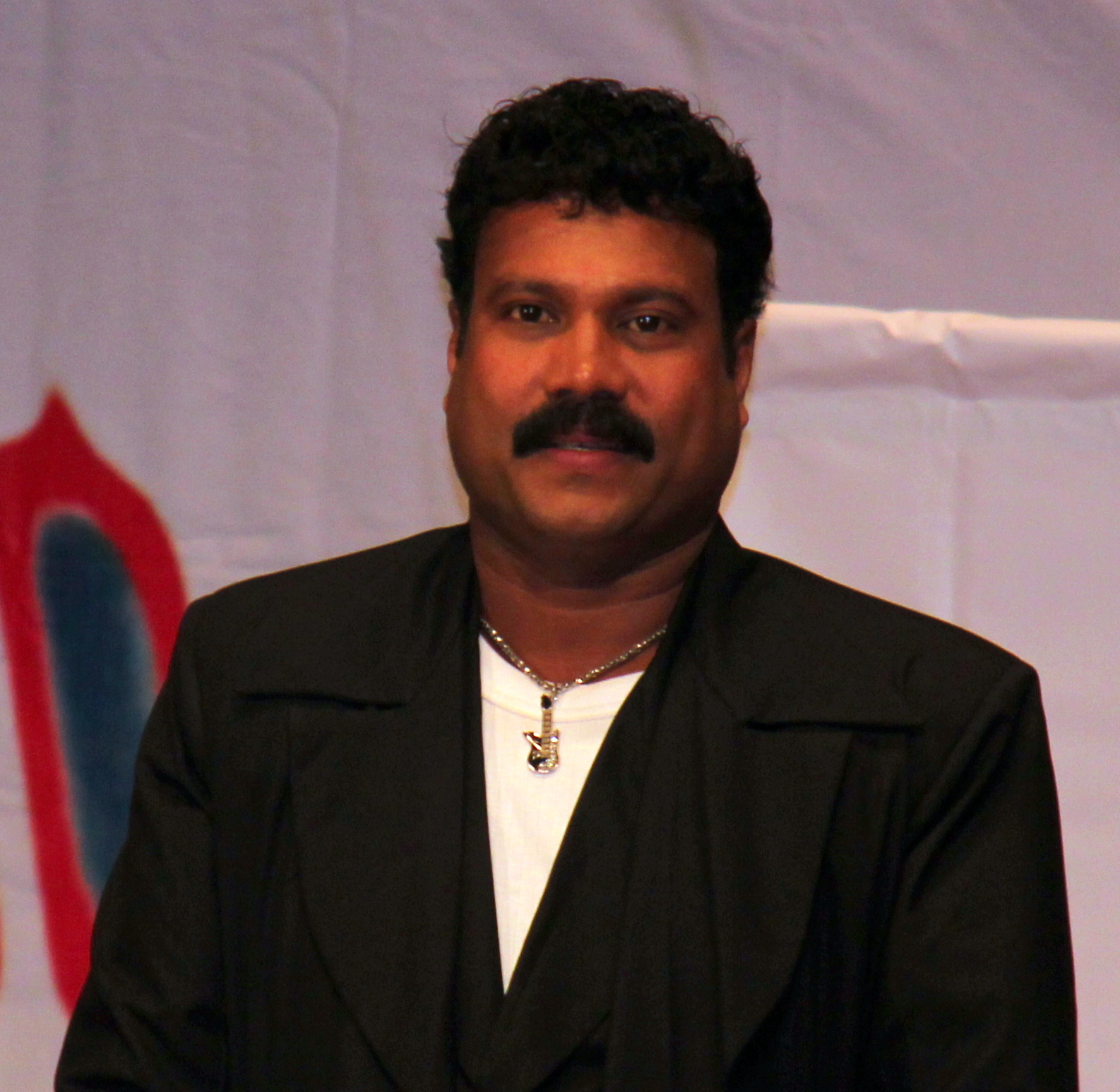 Kalabhavan Mani is a South Indian Actor and singer.